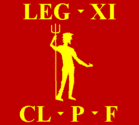 Signum of Legio XI Claudia, simplified reconstruction, Neptun's image is taken from a coin of Gallienus